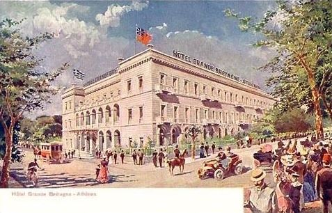 Athens, Hotel Grande Bretagne 1910